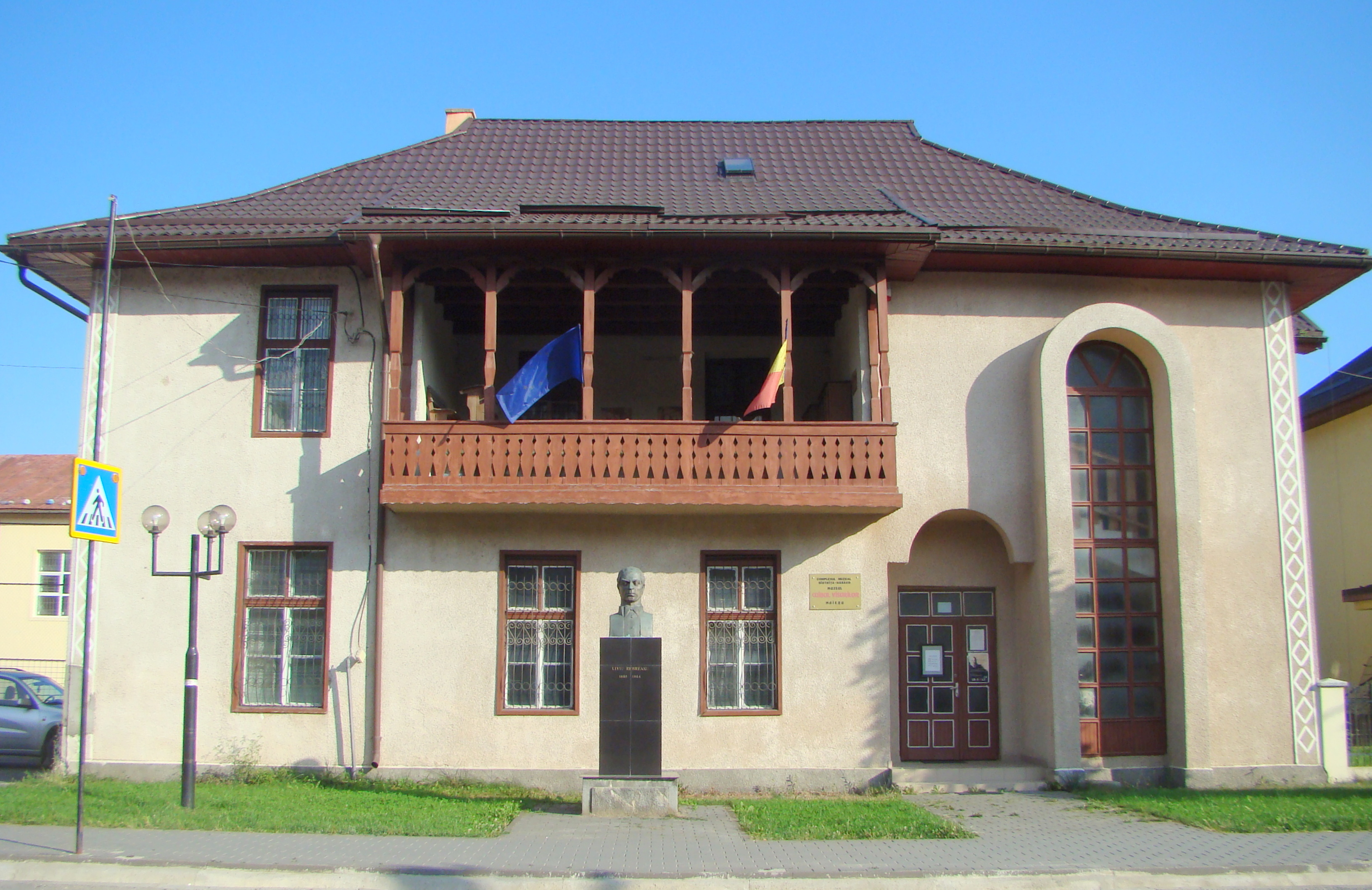 Maieru, Bistrița-Năsăud county, Romania